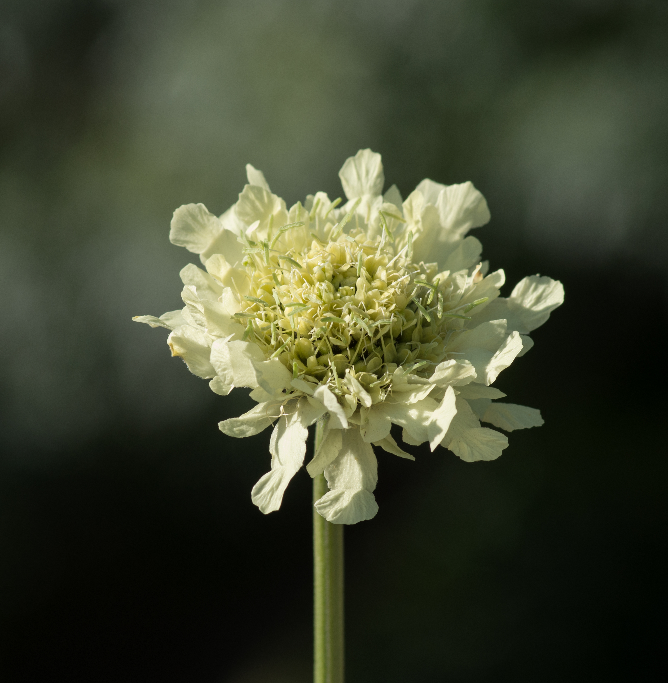 Inflorescence of Cephalaria alpina - Alpine scabious or Yellow scabiose - Jardin des Plantes de Paris